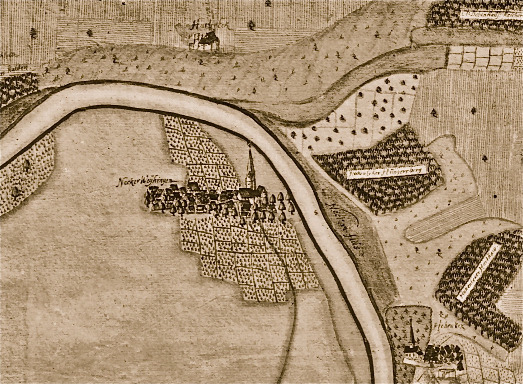 Neckarweihingen ( Germany), Castle Harteneck and Hoheneck (with ruins). Detail from a map made by Andreas Kieser 1685